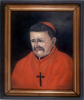 A portrait of Archbishop Hilarión Díez (1761 - 1829). Hilarión Díez was Archbishop of Manila from 1826 untill his death in 1829.